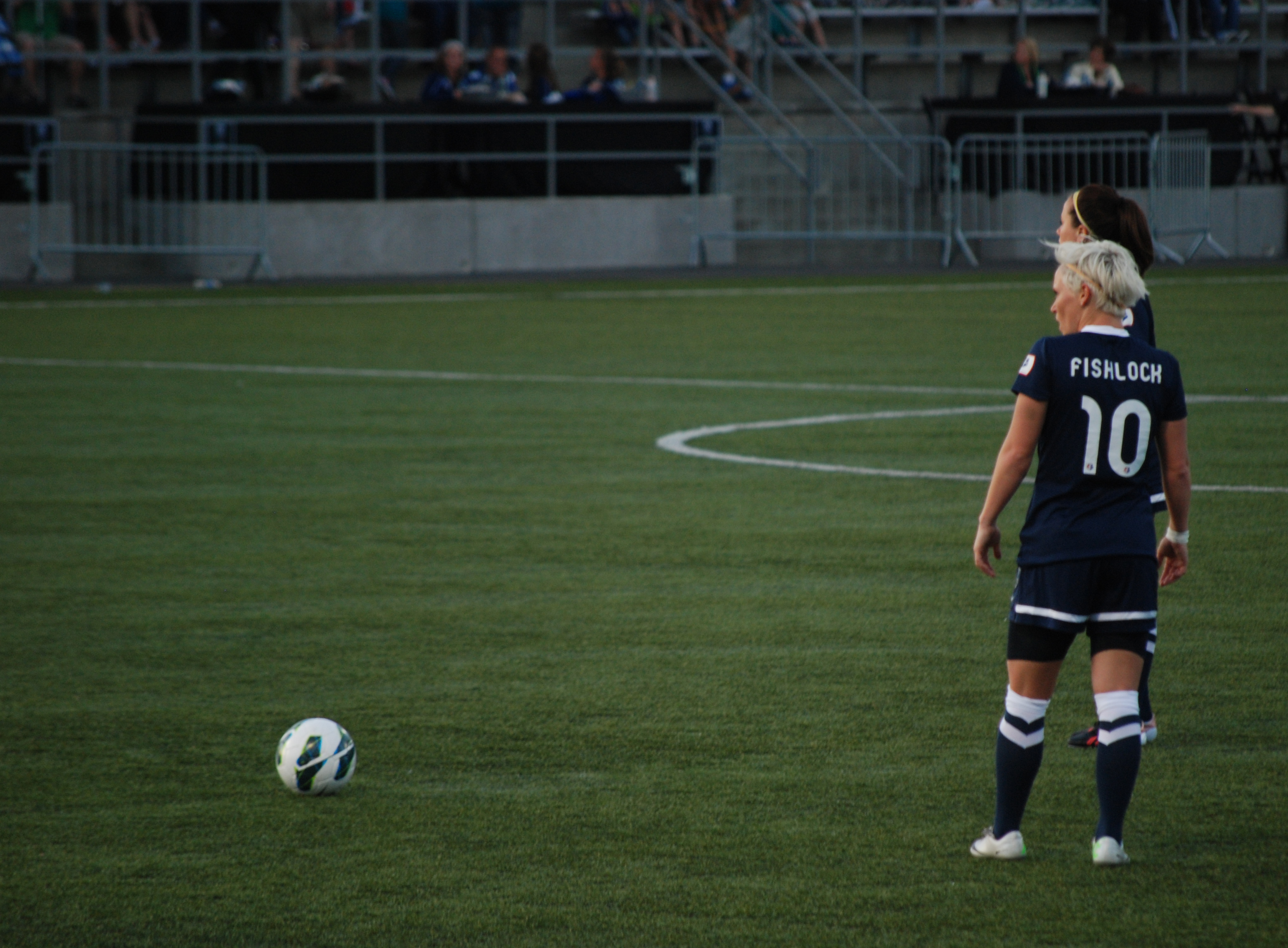 Jessica Fishlock, Seattle Reign FC vs FC Kansas City, May 4, 2013